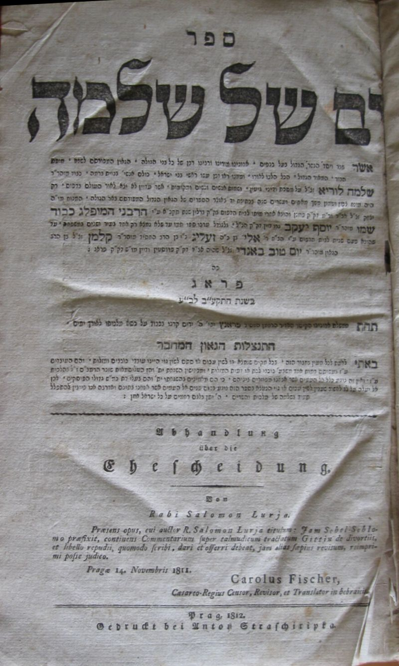 Yam Shel Shlomo on Gittin, Prague 1812